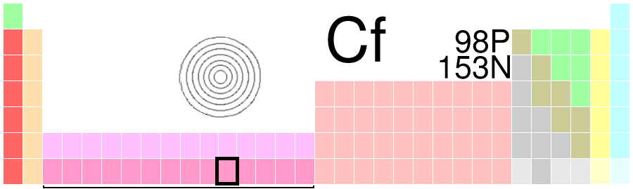 Created by User:Ahoerstemeier similar to the other element boxes